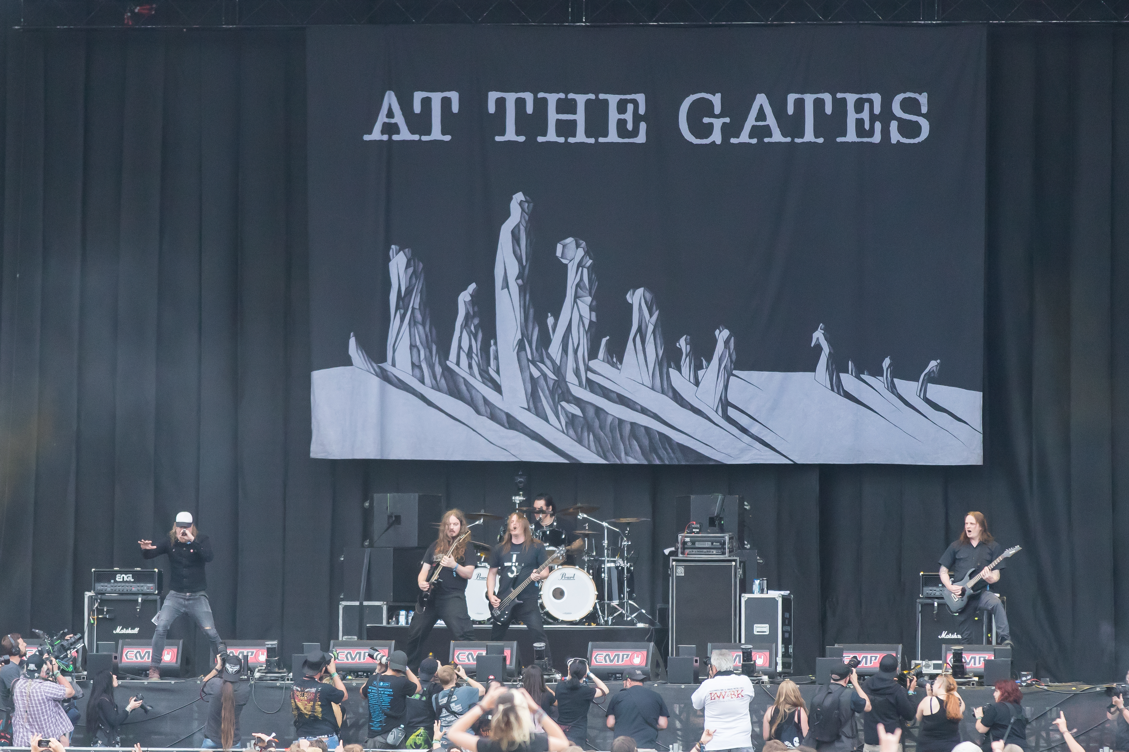 At the Gates during Summer Breeze 2016 at , Dinkelsbühl, Bayern, Germany on 2016-08-18, Photo: Sven Mandel